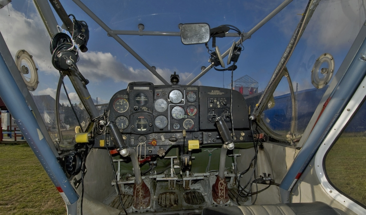 PZL 104 Wilga(052).Cockpit.